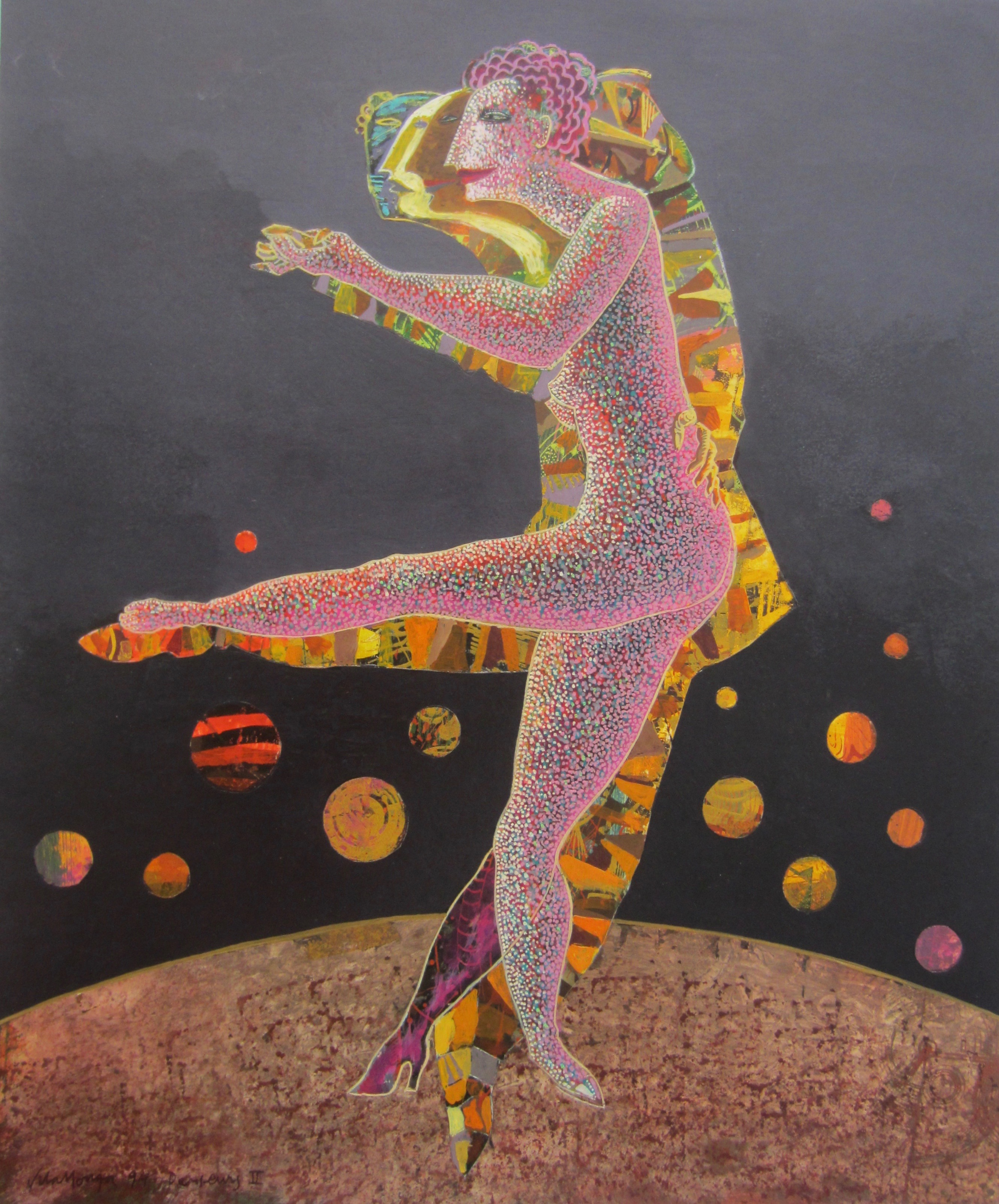 Egg tempera painting by Jesús Vilallonga. Photograph by Katherine Slusher